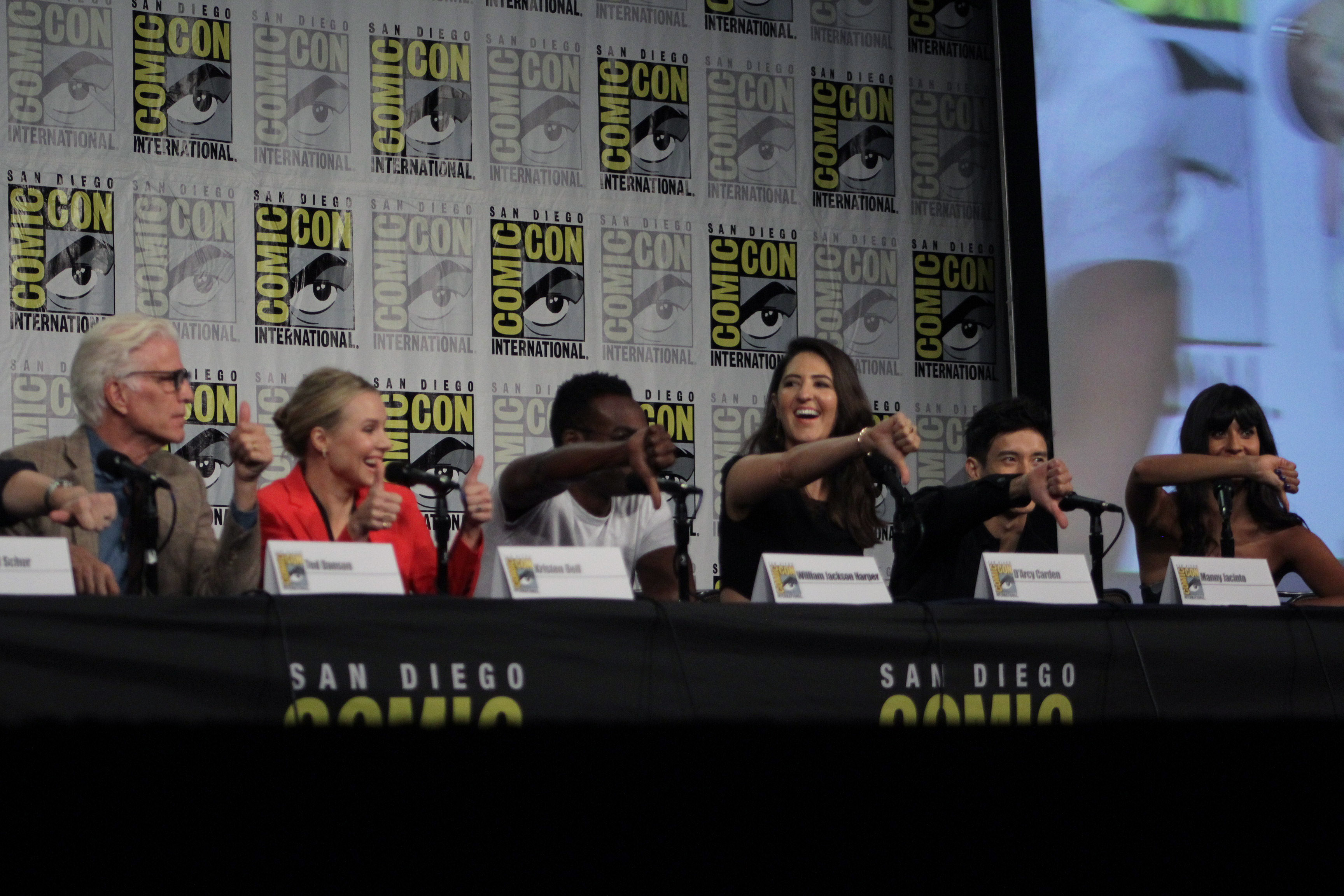 Cast and crew of NBC's 'The Good Place' discuss the show in the Indigo Ballroom at the San Diego Hilton Bayfront Hotel during San Diego Comic Con on July 21, 2018. Taken by Dominique Redfearn.